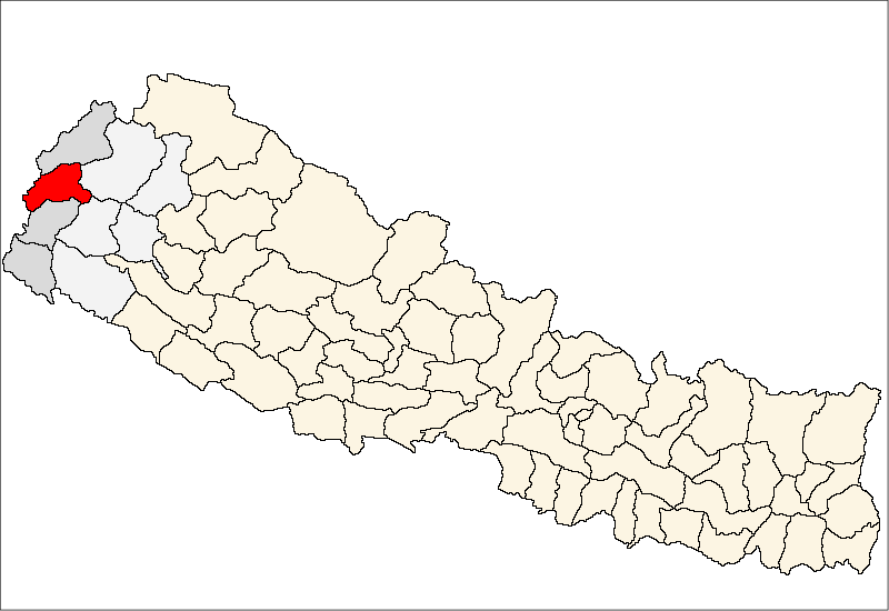 FrenchCarte de localisation dudistrict de Baitadi(wp-FR),au Népal (wp-FR).EnglishLocation map ofBaitadi District(wp-EN),in Nepal (wp-EN).